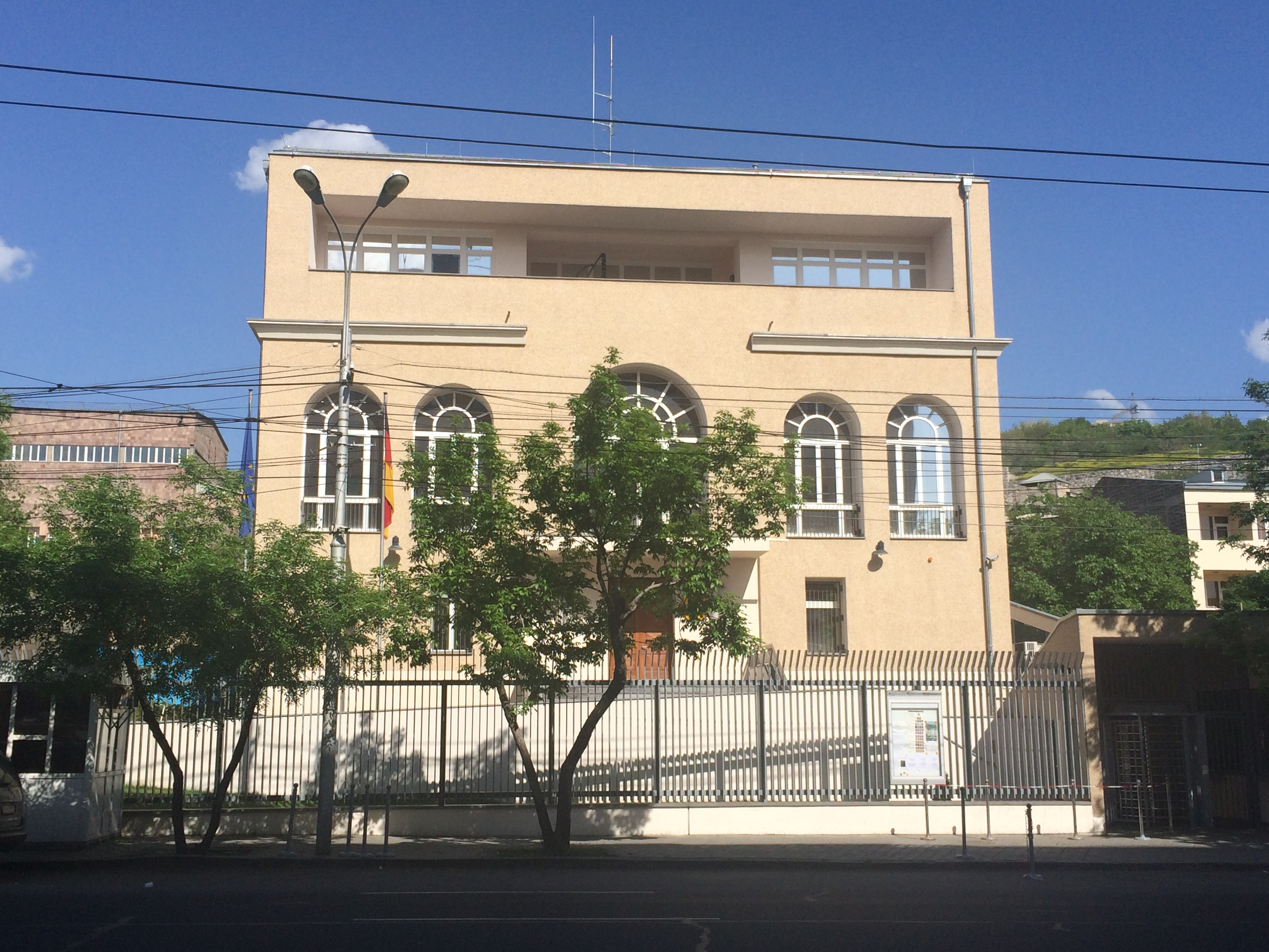 Embassy of Germany in Charents street, Yerevan